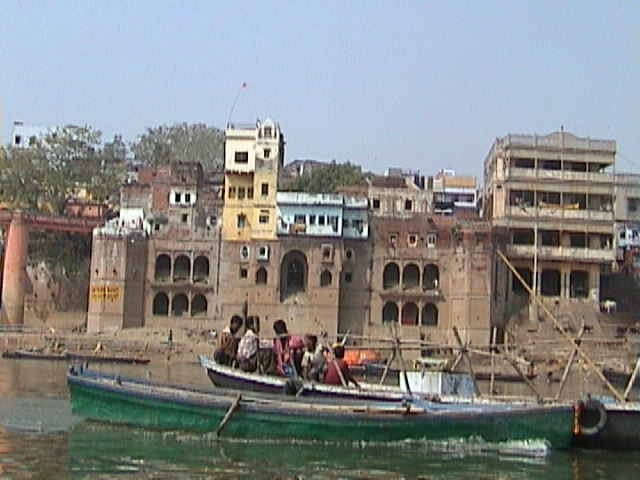 See Varanasi Development Cooperation Handbook/Stories/Responsible Development - Varanasi The Varanasi Heritage Dossier Kautilya Society Play media Vrinda Dar - How we got involved in heritage protection of Varanasi